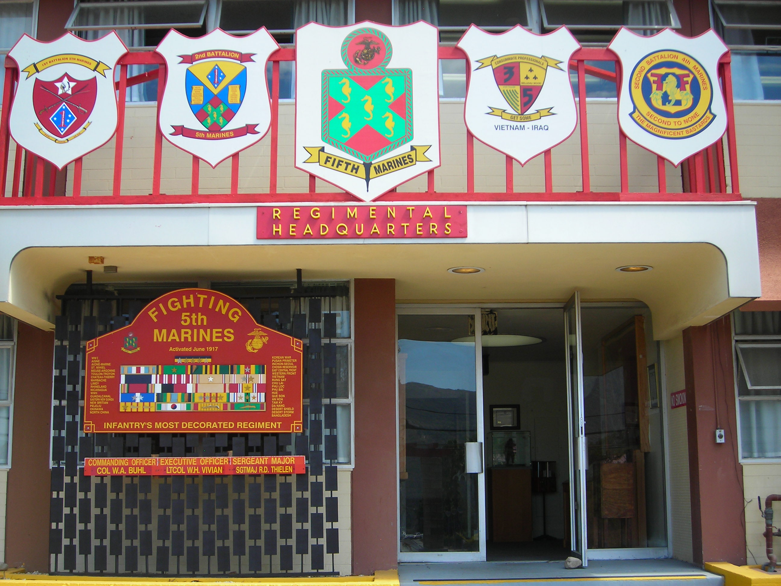 This is a photo taken in 2009 of the entry way to the 5th Marines' regimental command post.